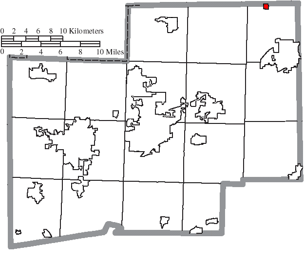 Map of the municipal and township boundaries of Stark County, Ohio, United States, as of the 2000 census, with the location of the village of Limaville highlighted. Township borders are shown only in unincorporated areas in order to differentiate incorporated and unincorporated areas more clearly.